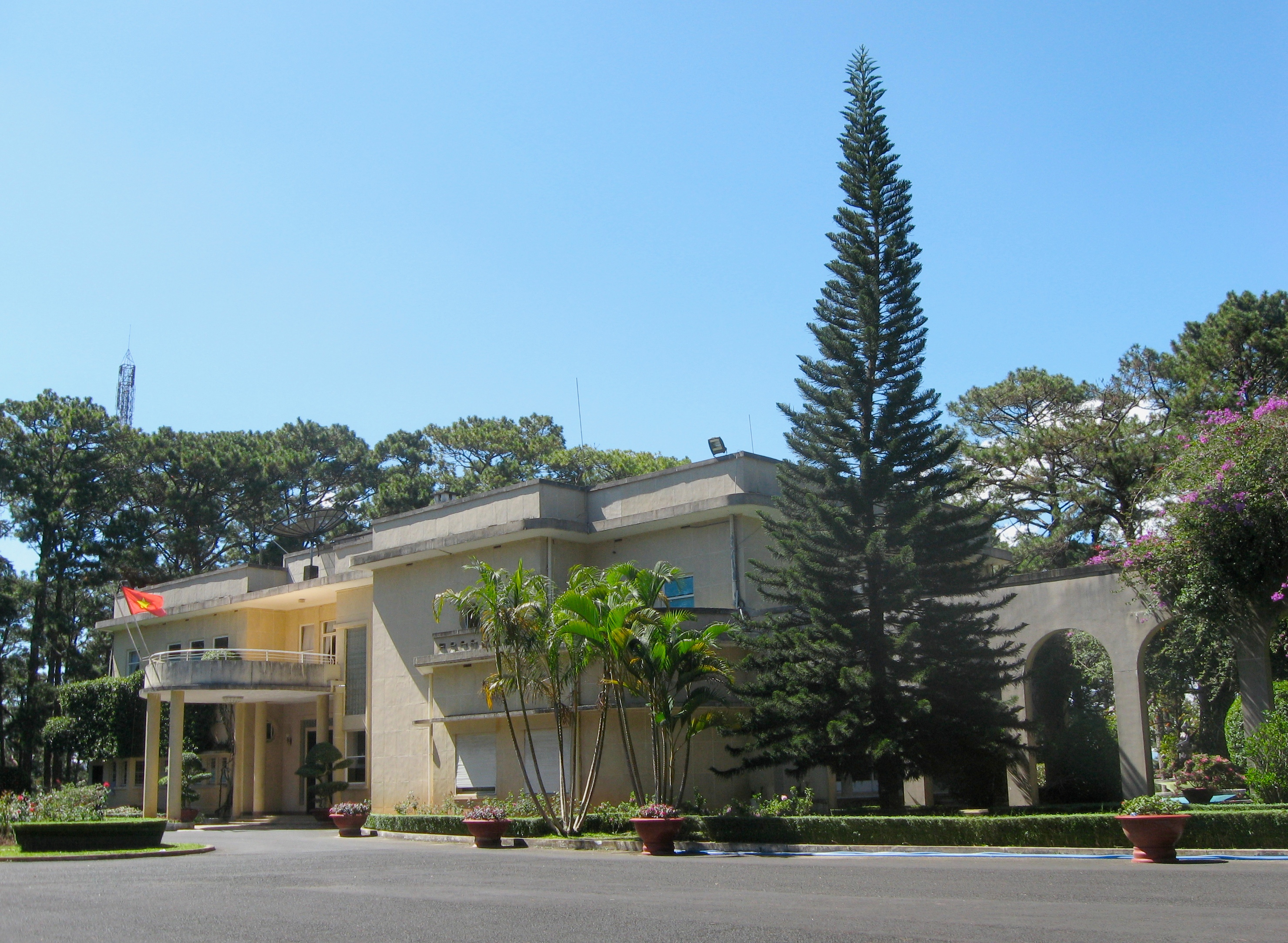 Palace II, Da Lat